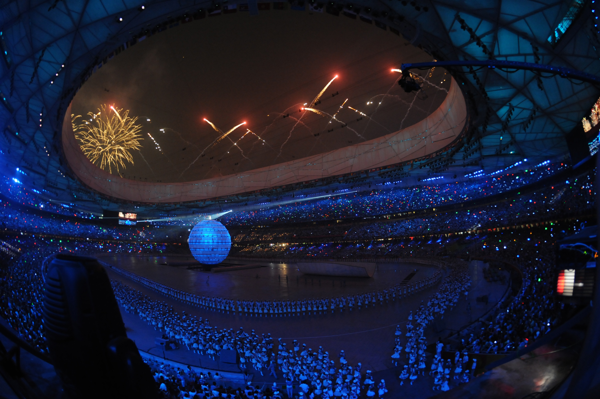 Demonstrating the Beijing Olympic theme of "One World, One Dream," fireworks are set off above a gigantic, 16-ton globe arose from the floor, with 58 actors running on nine rings covered with an Olympic torch pattern, Aug. 8, 2008.